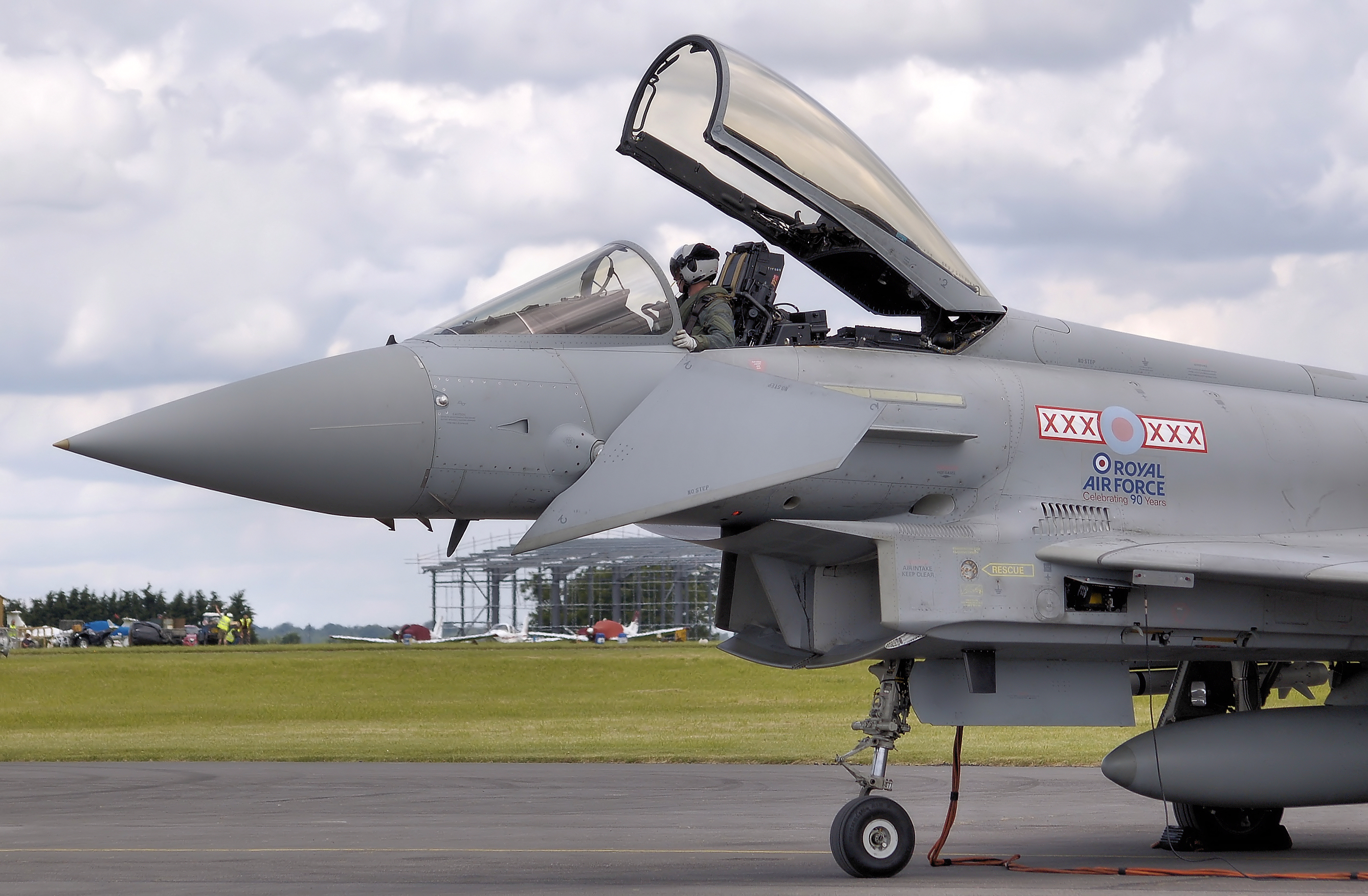 Royal Air Force Eurofighter EF-2000 Typhoon F2 (ZJ910) at the 2008 Air Day, Kemble Airport, Gloucestershire, England, showing a deflected canard.